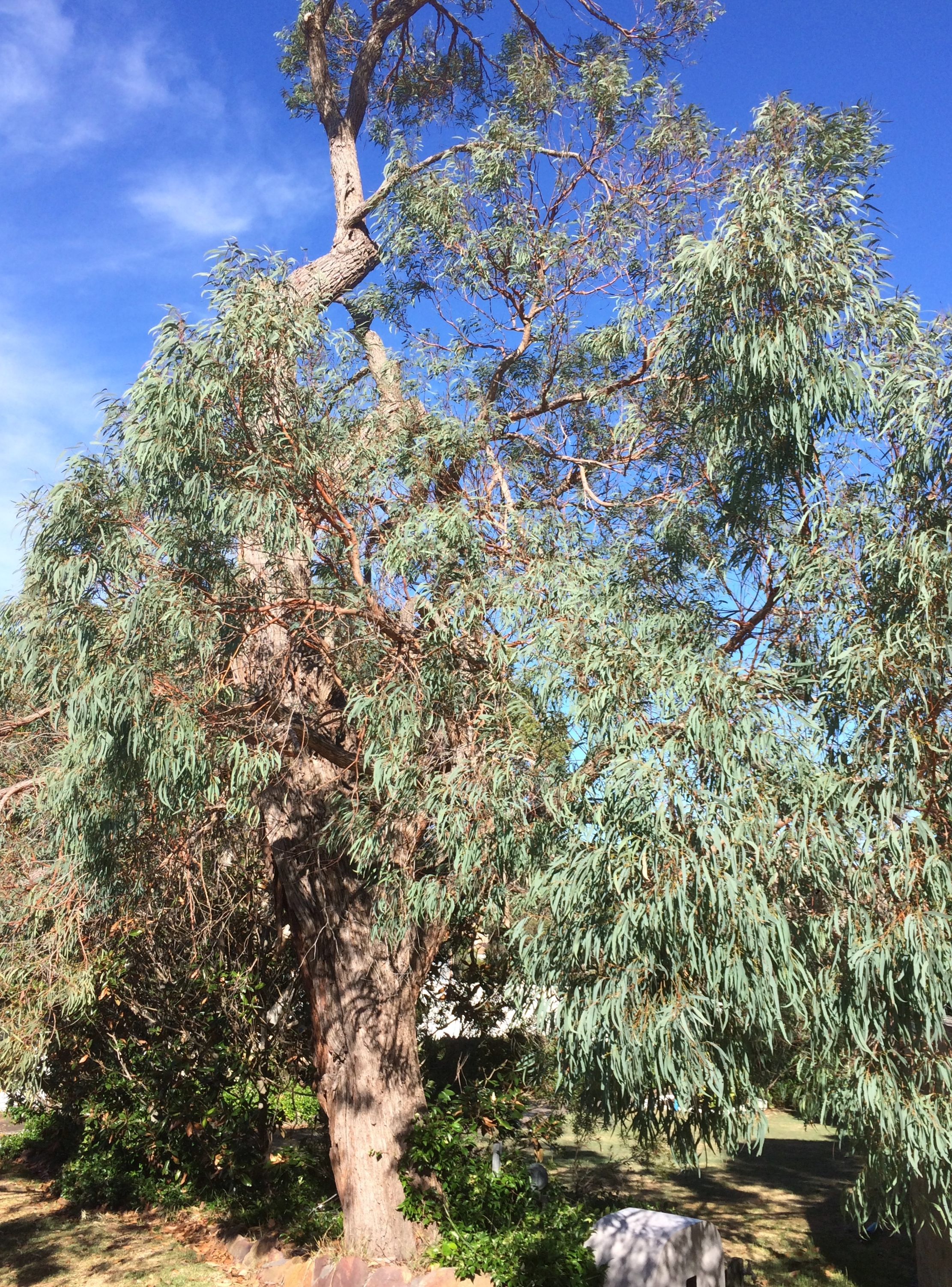 Eucalyptus radiata (narrow-leaved peppermint), Port Hacking NSW, showing significant upper pruning for powerline clearance